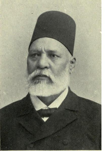 Portrait of a man in a fez.